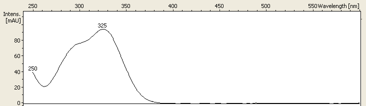 UV visible spectum of chlorogenic acid